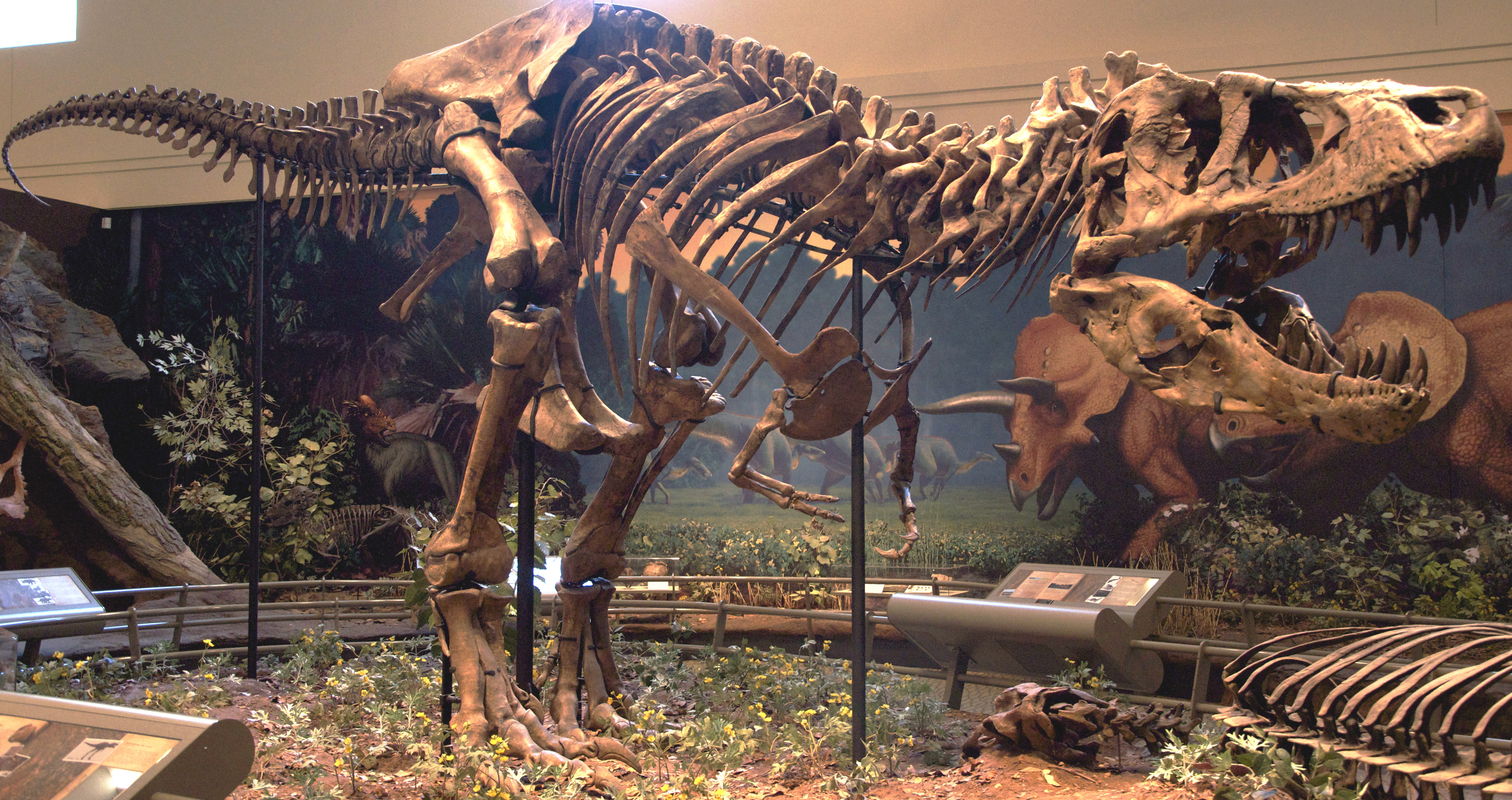 Skeletal cast of Tyrannosaurus Rex holotype at the Carnegie Museum of Natural History, Pittsburgh